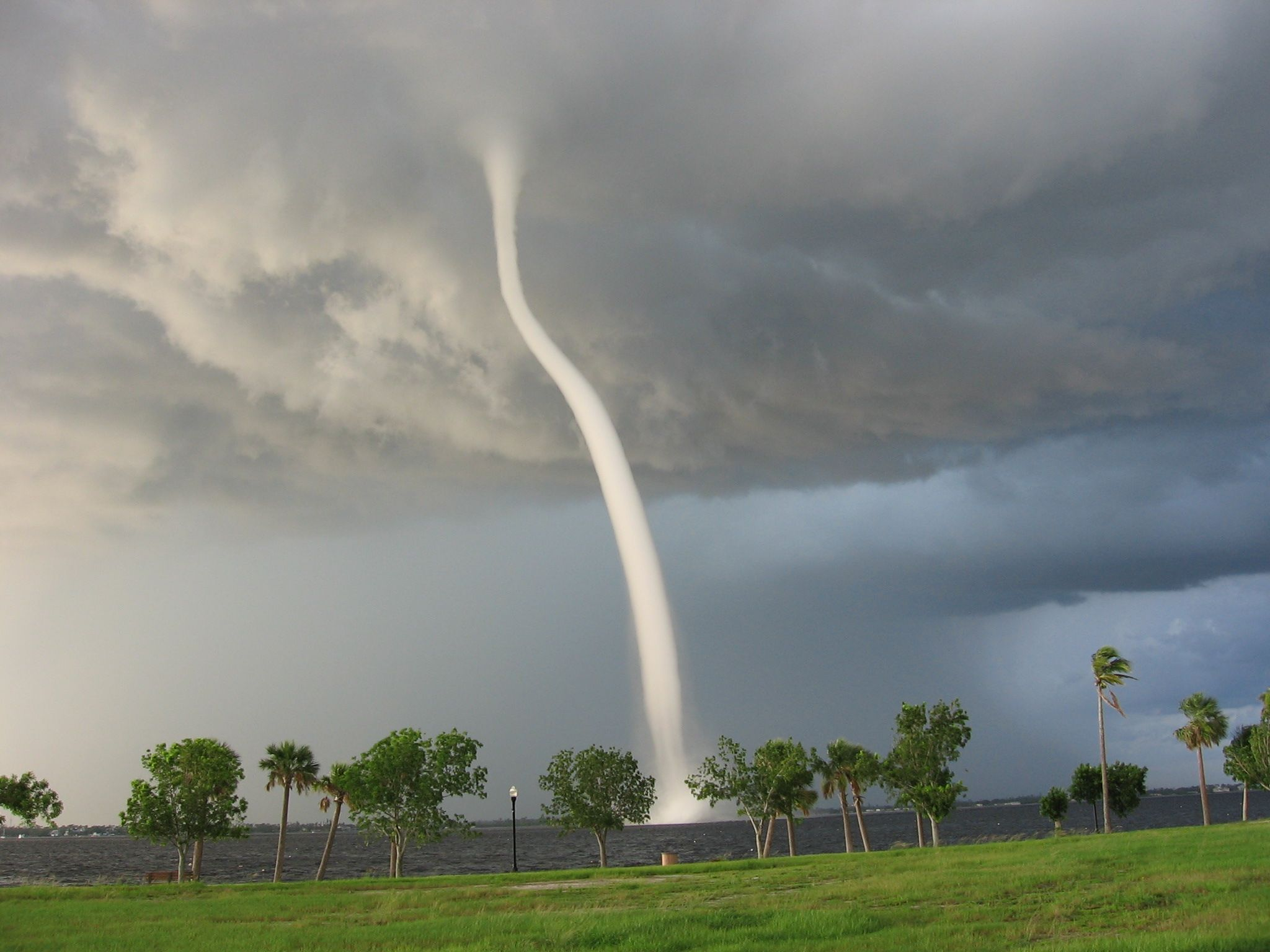 Photograph of a waterspout over the Peace River, at approximately 740 PM EDT July 15, 2005. This tornadic waterspout developed just north of Punta Gorda during the evening of July 15th. The spout remained near or over water for most of its life. For the short period on land, only minor damage was reported, mostly to trees. One residence sustained minor damage. Power outages were also noted in the area; however, some of these may have been due to locally excessive cloud to ground lightning strikes.